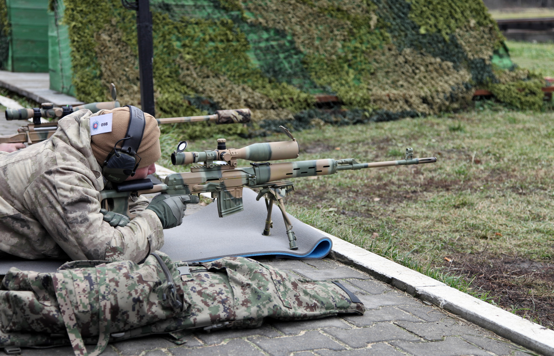 4th November Sniper Match